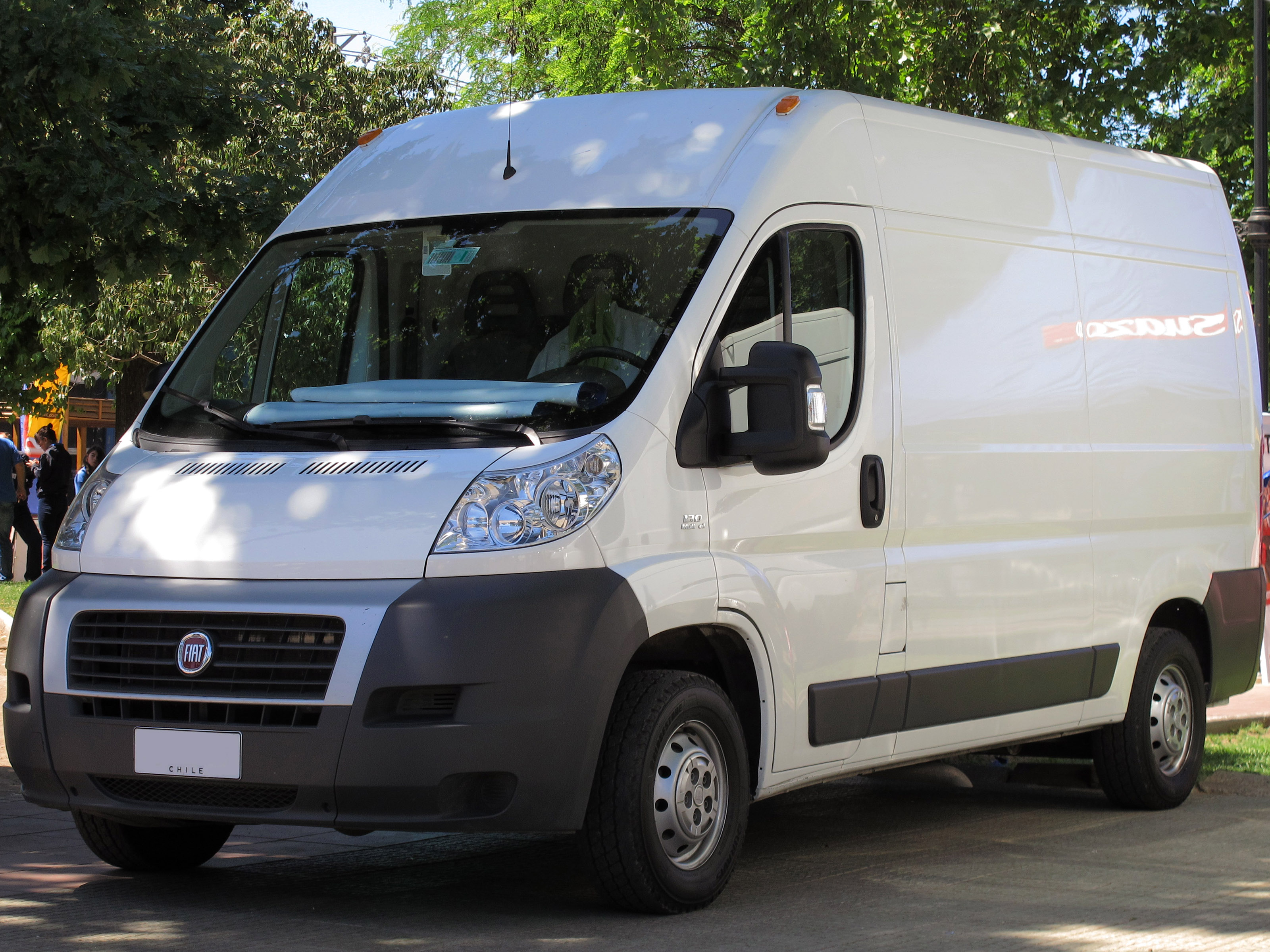 Fiat Ducato 130 MultiJet Cargo 2013